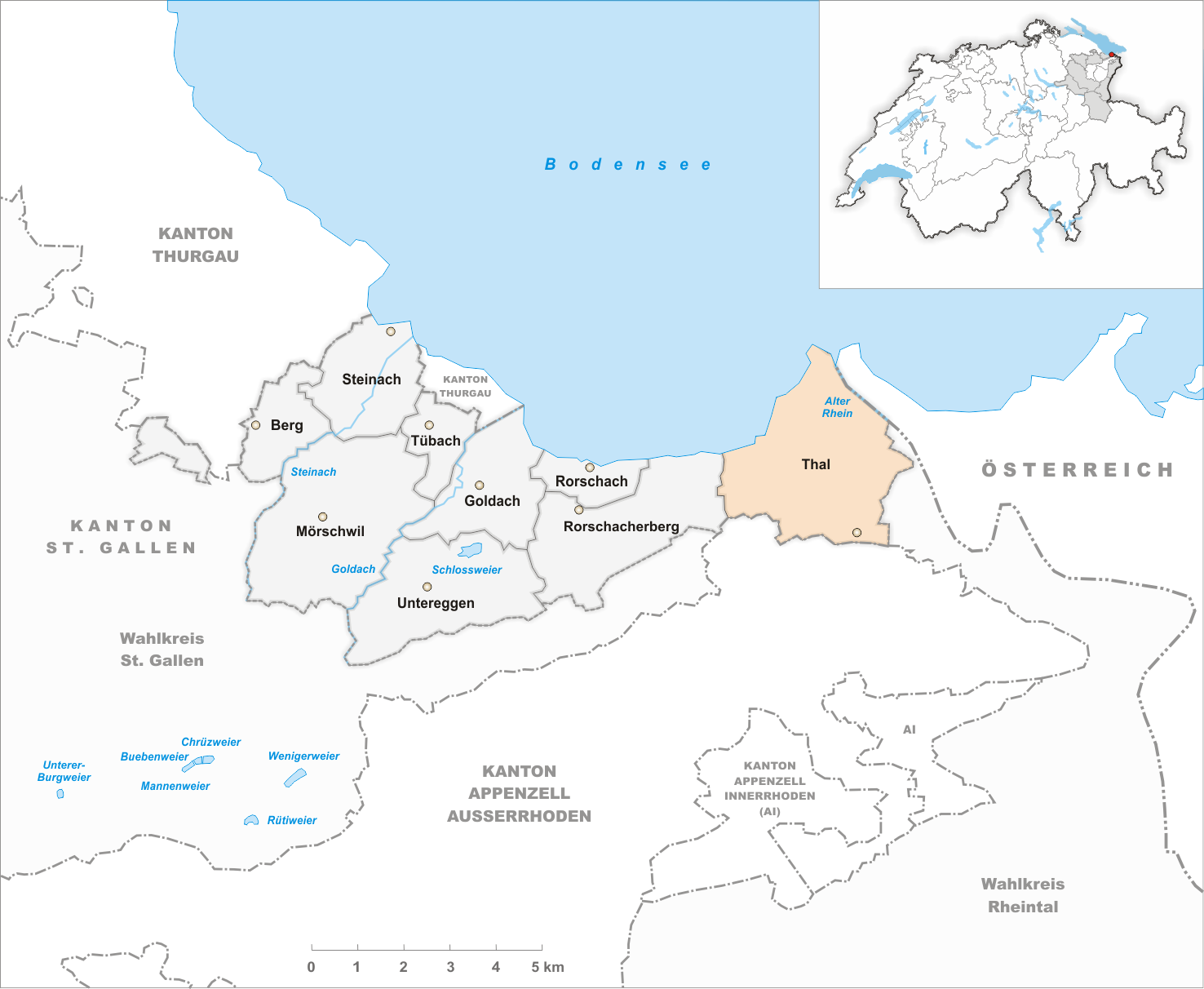 Municipality Thal